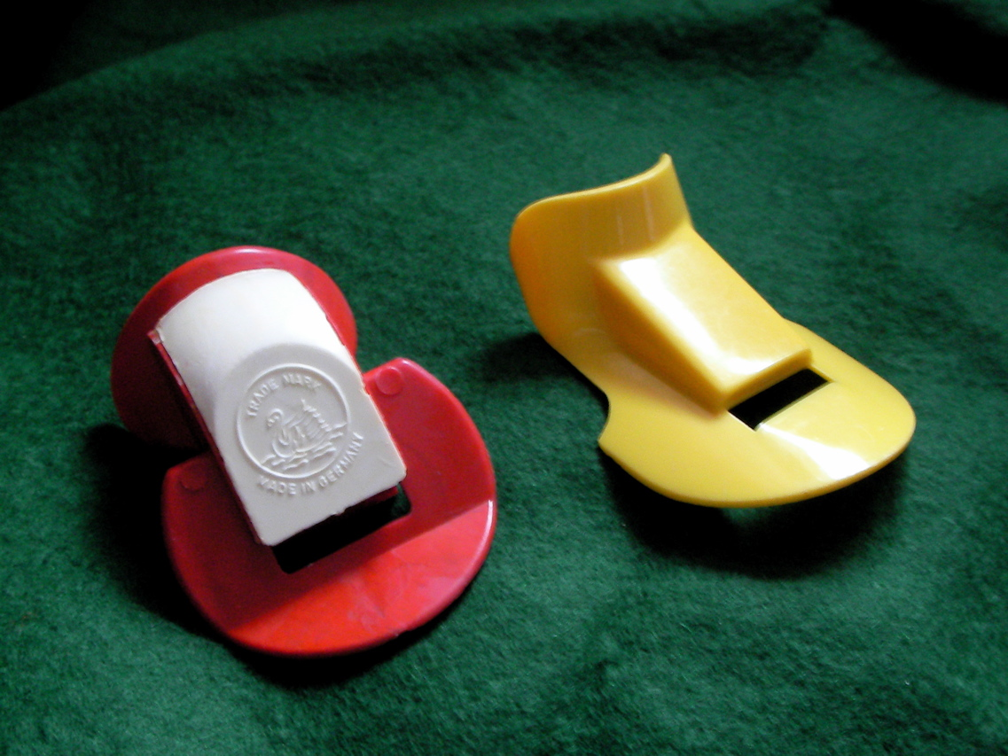 Two simple nose flutes made by plastic